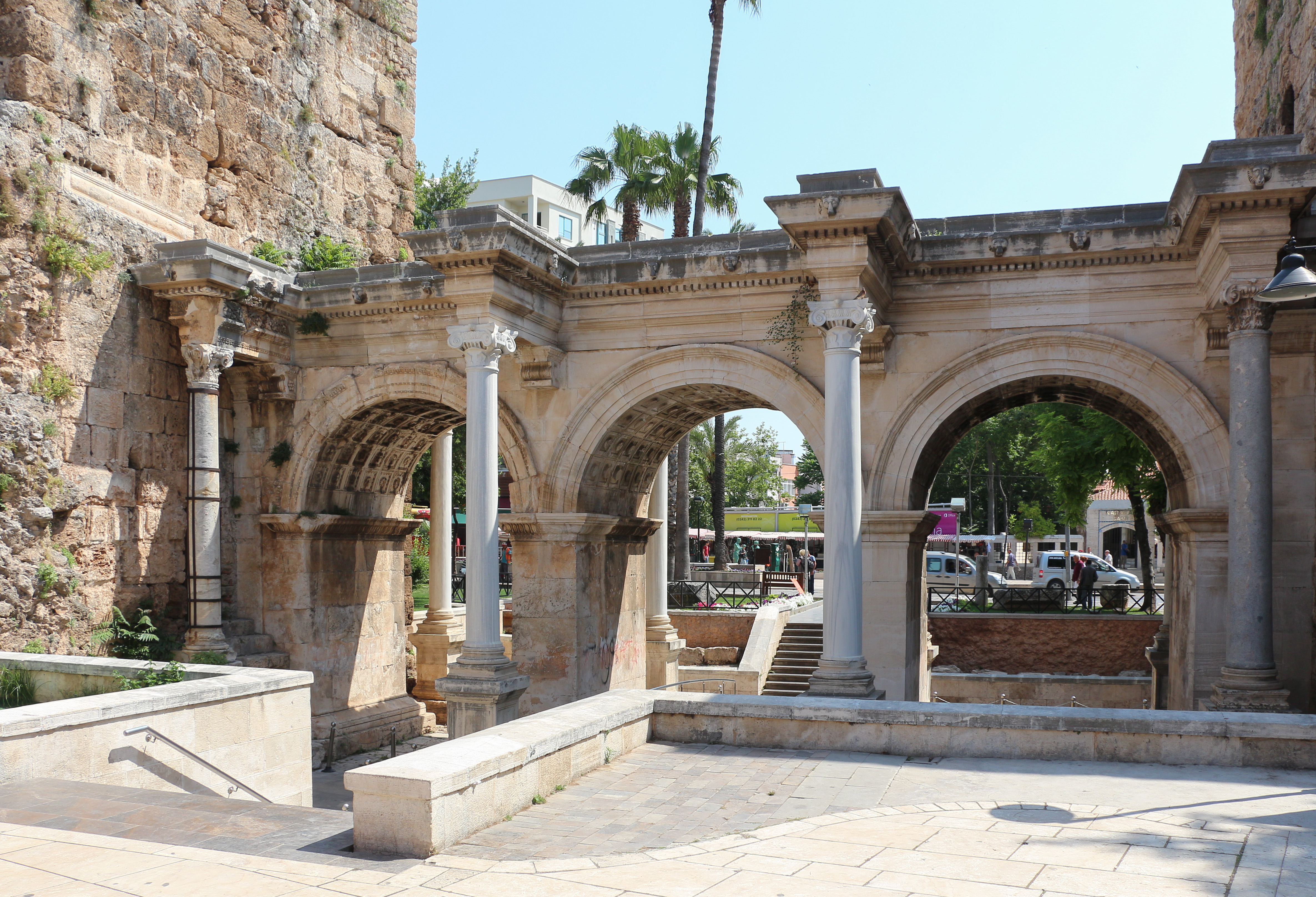 Hadrian's Gate, Antalya, Turkey